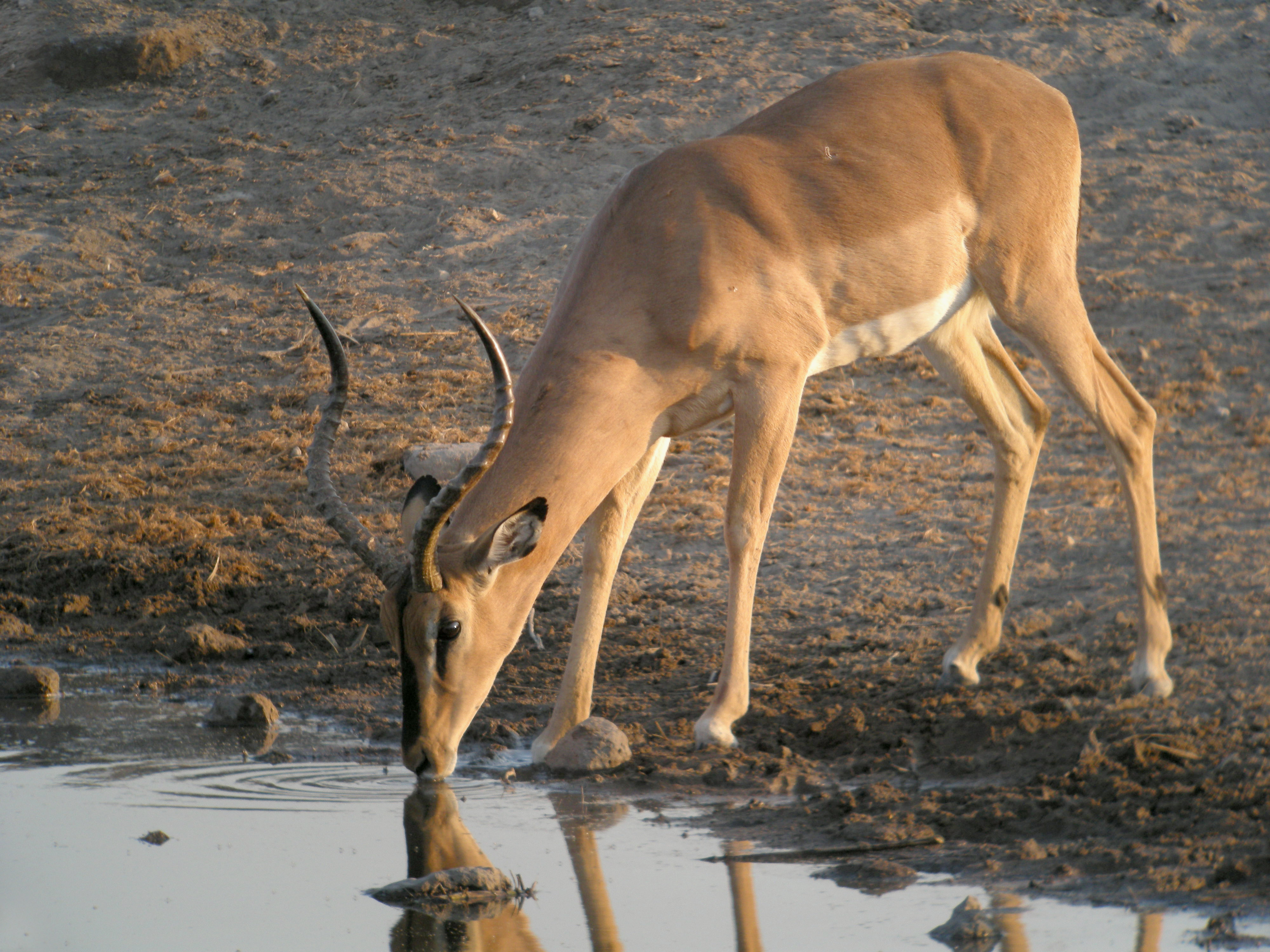 Black-faced impala, Etosha National Park, Namibia Swarowski 80 HD 30 X, Coolpix P5100 (Adapter DCB)